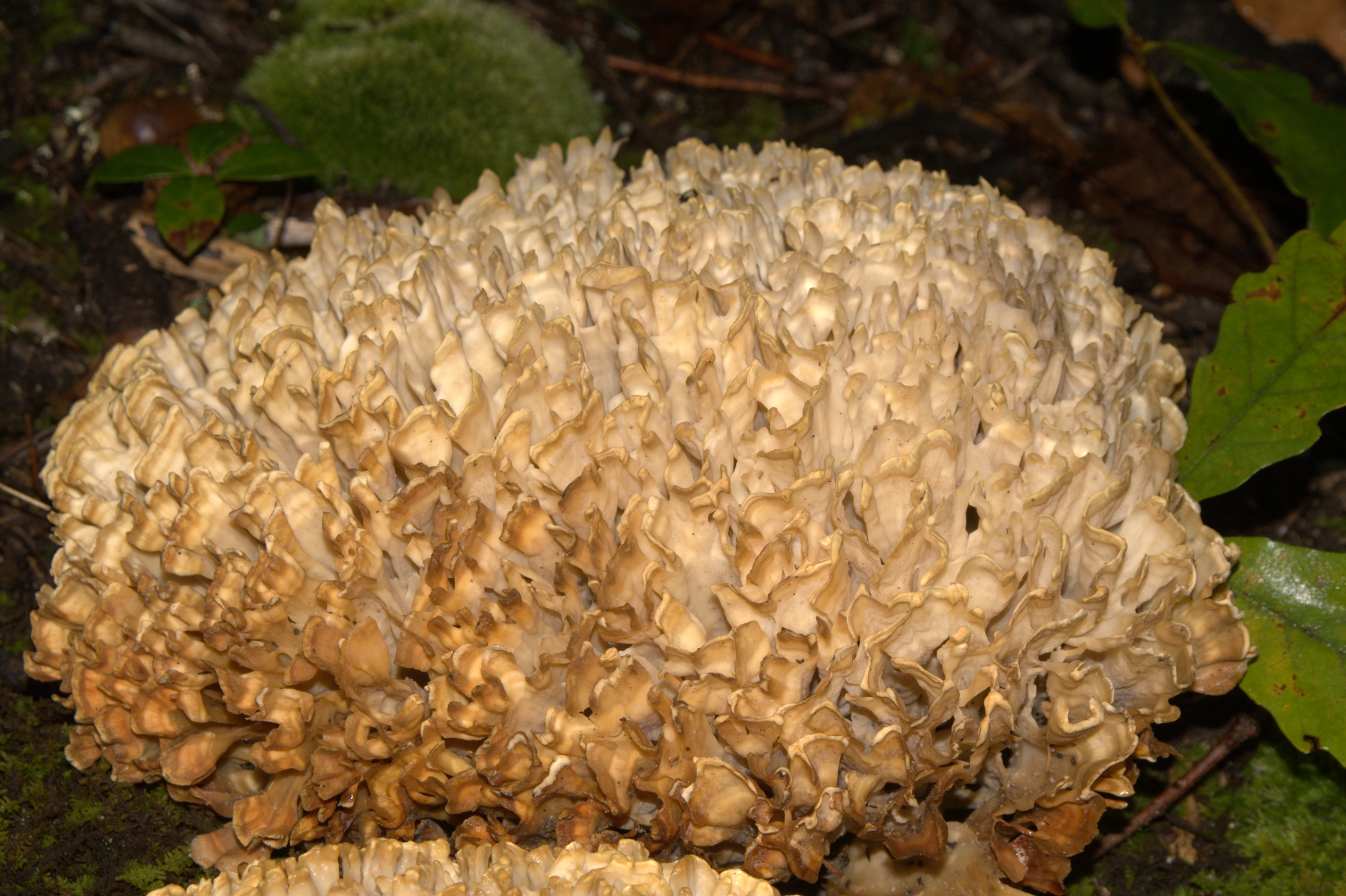 A picture of sparassis mushroom (also known as cauliflower mushroom) taken in George Washington National Forest, USA, near the peak of Tibbet Knob.